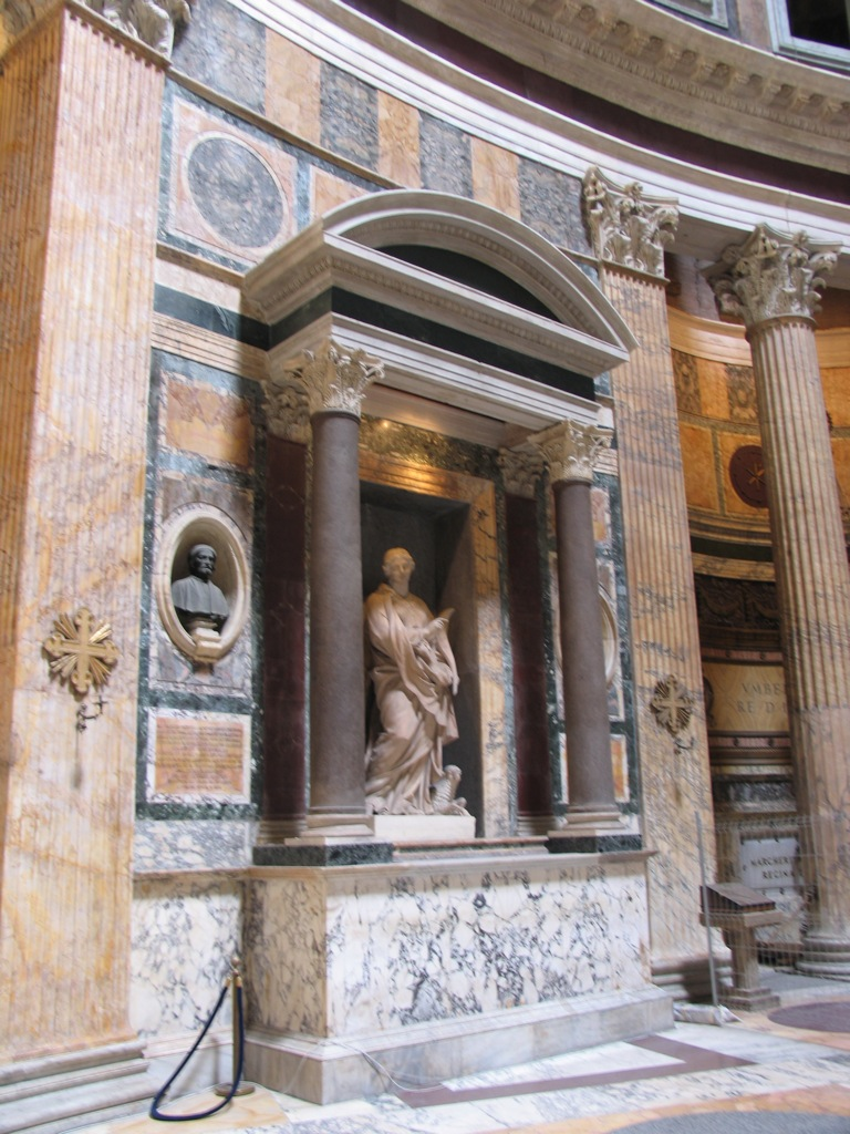 Pantheon, Roma, ItaliaIMG_0445.JPG